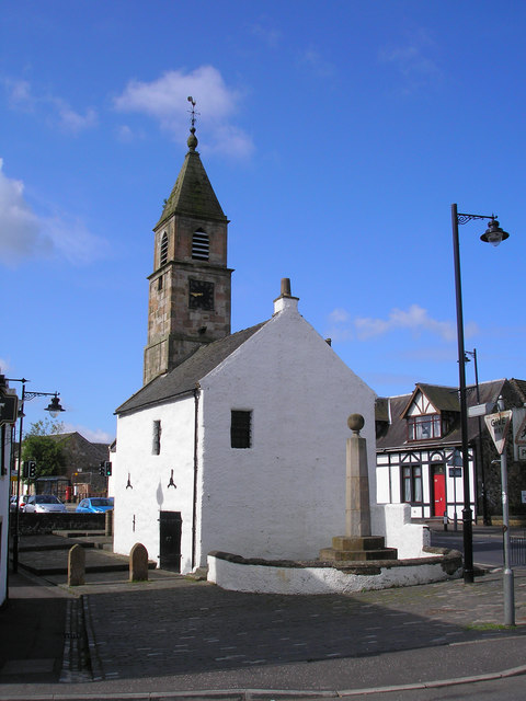 Kilmaurs Tollbooth. The 'Jougs' as it is known locally was the meeting place of the Magistrate and local worthies. It was used as a place of imprisonment and punishment, and the name Jougs comes from the iron neck ring and chain still attached to the external wall near the tower steps. It was also used as a collection point for Custom dues.